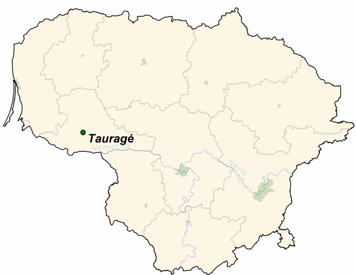 Tauragė (German Tauroggen) on the map of Lithuania